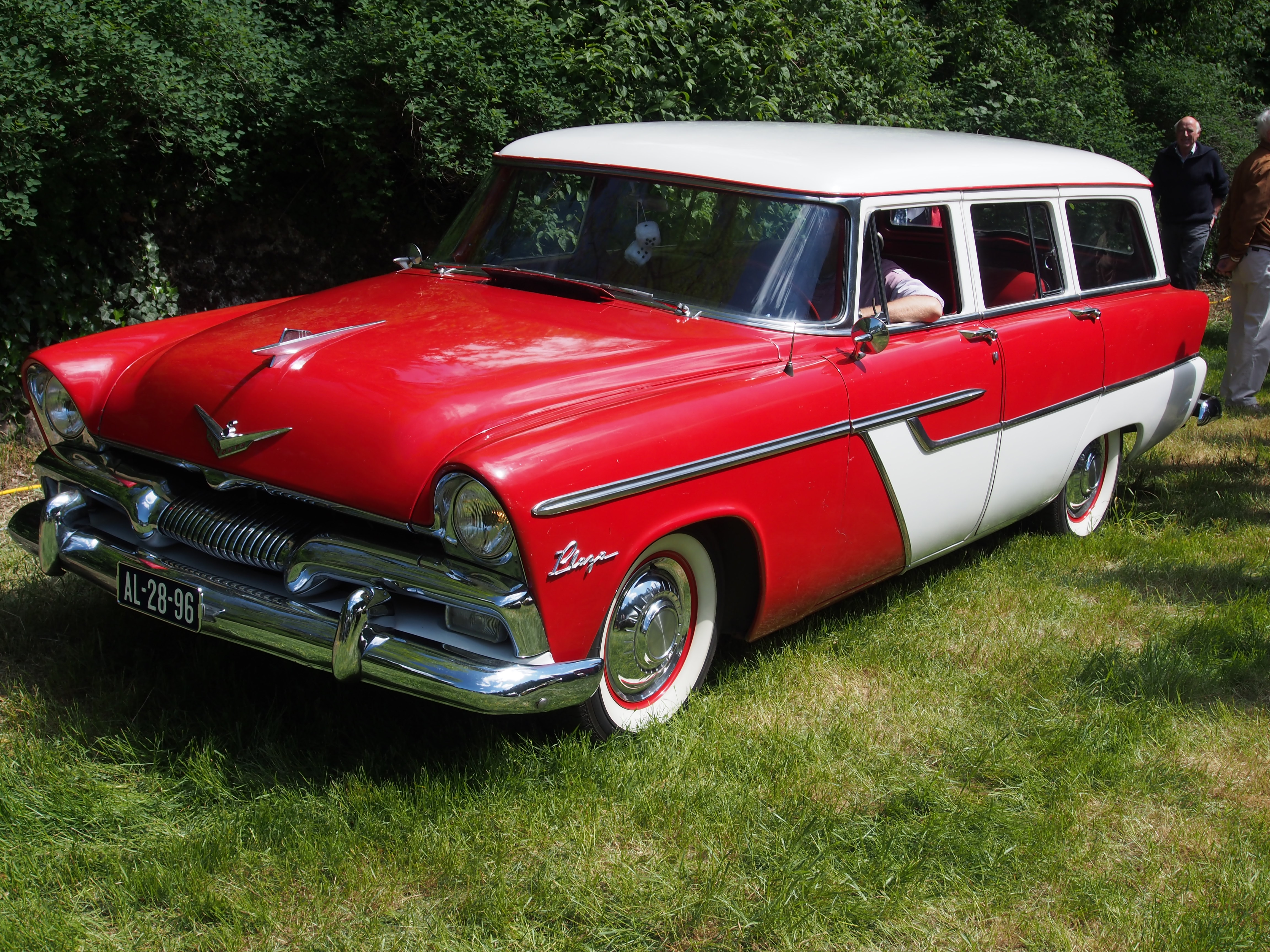 1955 Plymouth Plaza suburban, Engine: 259 Cu In. V8, Colour: Sport Tone. Originally only on Belvedere models but at later in '55 also on the Plaza available.